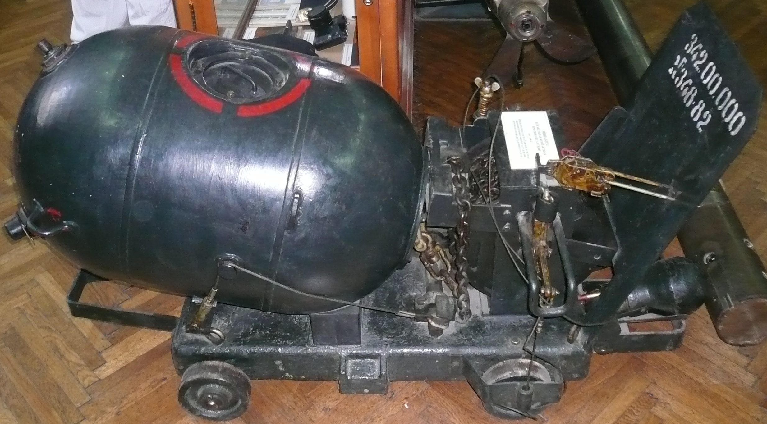 Naval mine KPM.